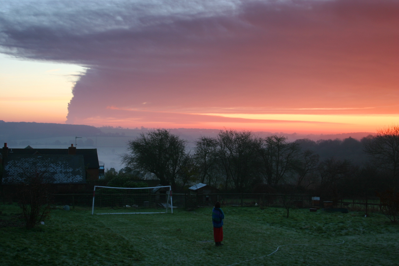 A photo of the Buncefield Oil Fire taken at 8:08am on 11 December 2005, 2 hours after the explosion. It was taken from Dunsmore, Buckinghamshire - about 14 miles (23 km) away. Photographer - Peter Dean